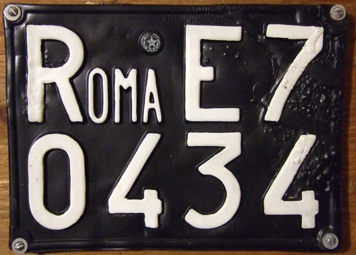 Rome Italy licenseplate from the 1960's.